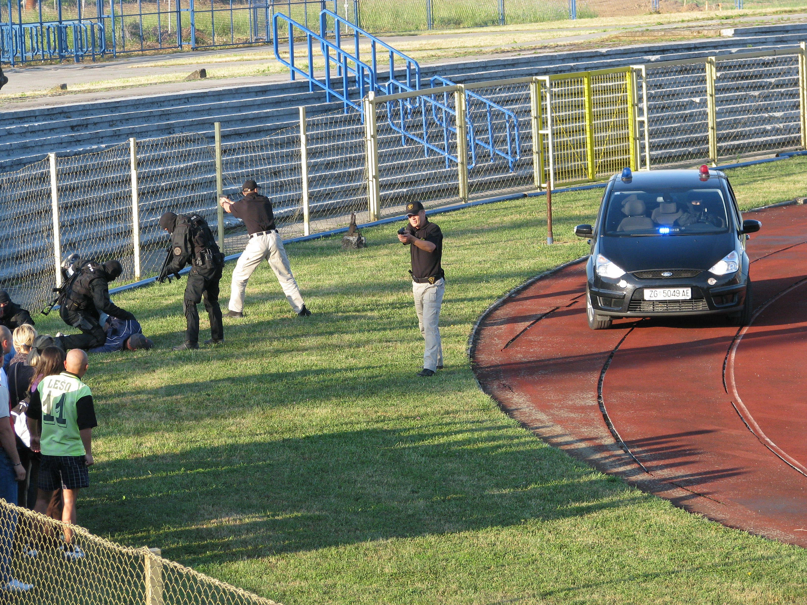 Demonstrative exercise of the Close Protection Unite of the Military Police of Croatia, Karlovac, 2009